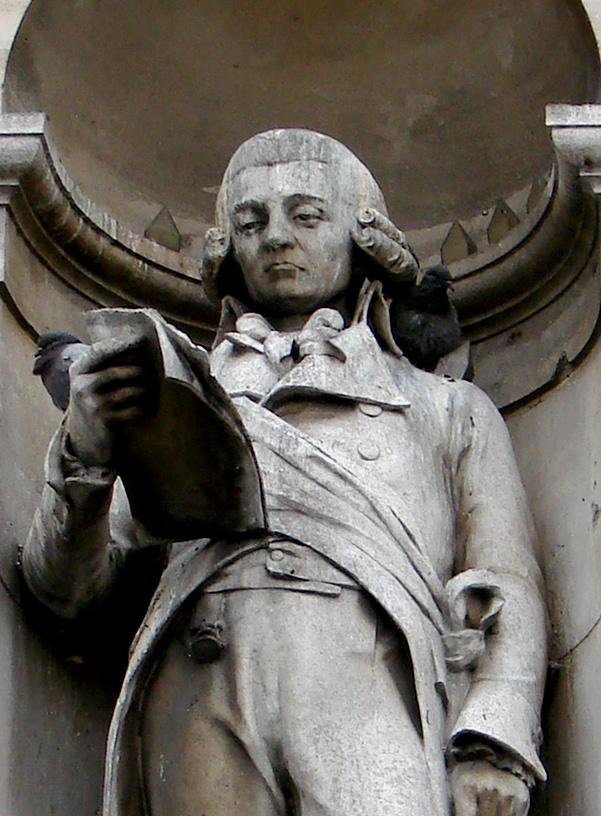 Statue of Jean-Nicolas Pache (1746 - 1823) in the Town Hall of Paris. He was mayor of Paris.